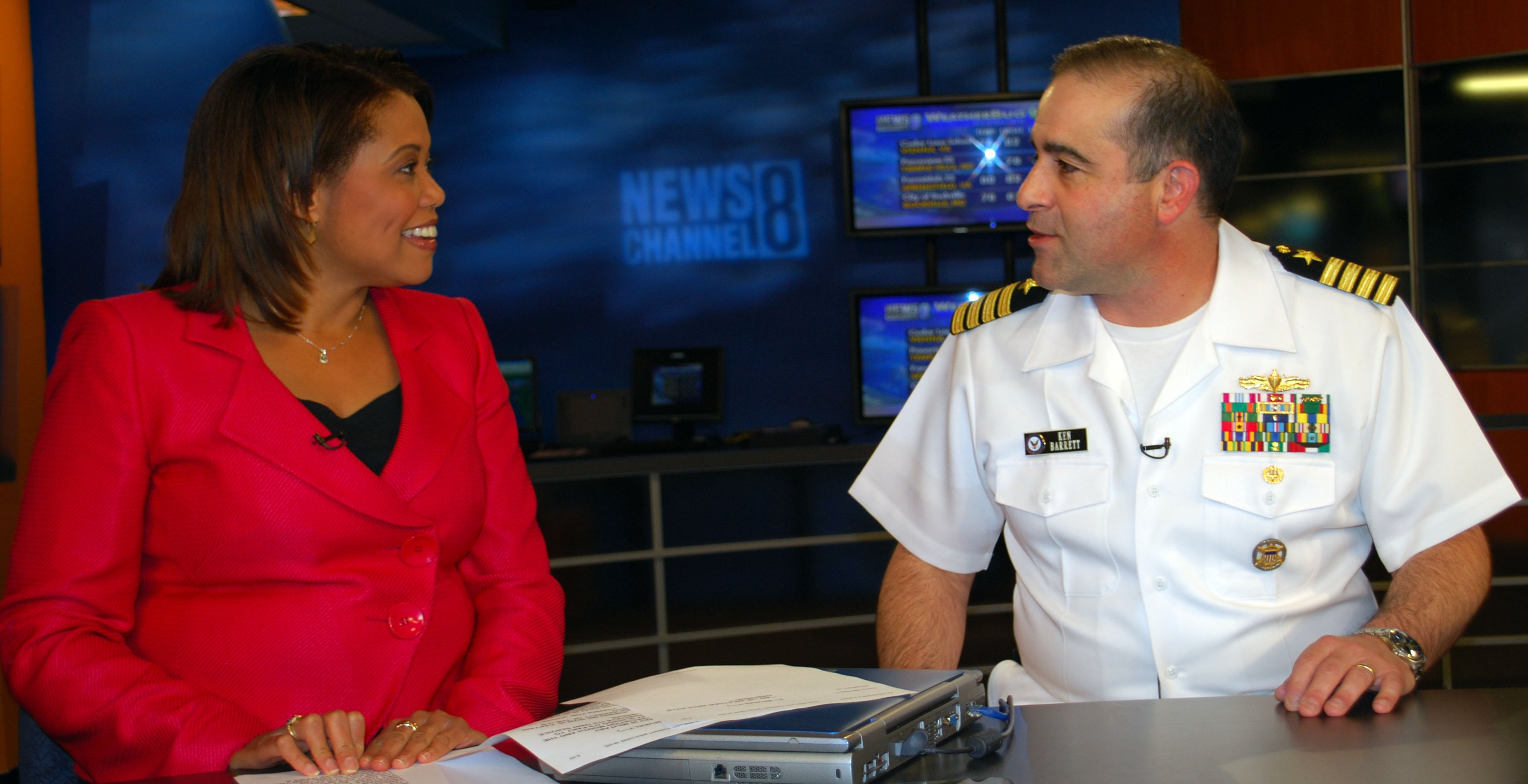 WASHINGTON (May 21, 2009) Capt. Ken Barrett, head of the Navy Diversity Directorate, speaks with Channel 8 News anchor Beverly Kirk about the Navy Career Intermission Pilot Program (CIPP) during an interview about Military Appreciation Month. The 4-minute live segment highlighted CIPP and other initiatives the Navy has in place to help it become a Top 50 employer. (U.S. Navy photo by Lt. Karen E. Eifert/Released)